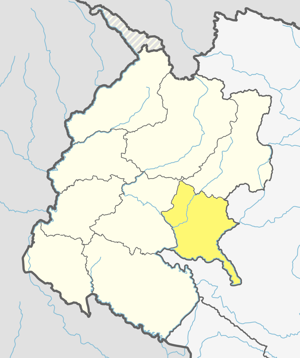 Achham District